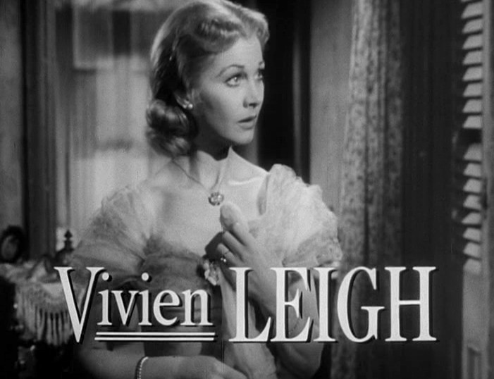 Cropped screenshot of Vivien Leigh from the trailer for the film A Streetcar Named Desire (1951